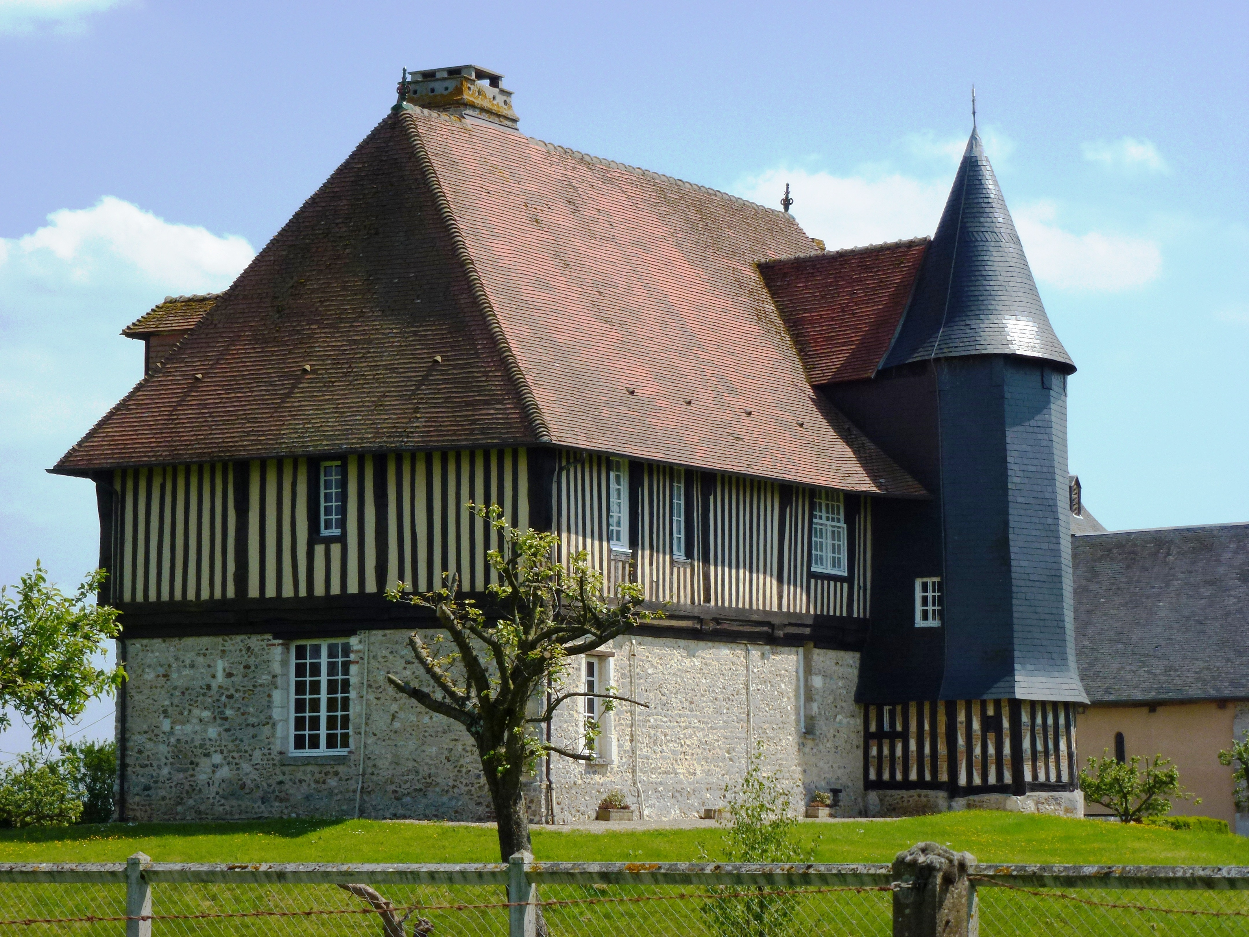 Piencourt (Eure) manoir